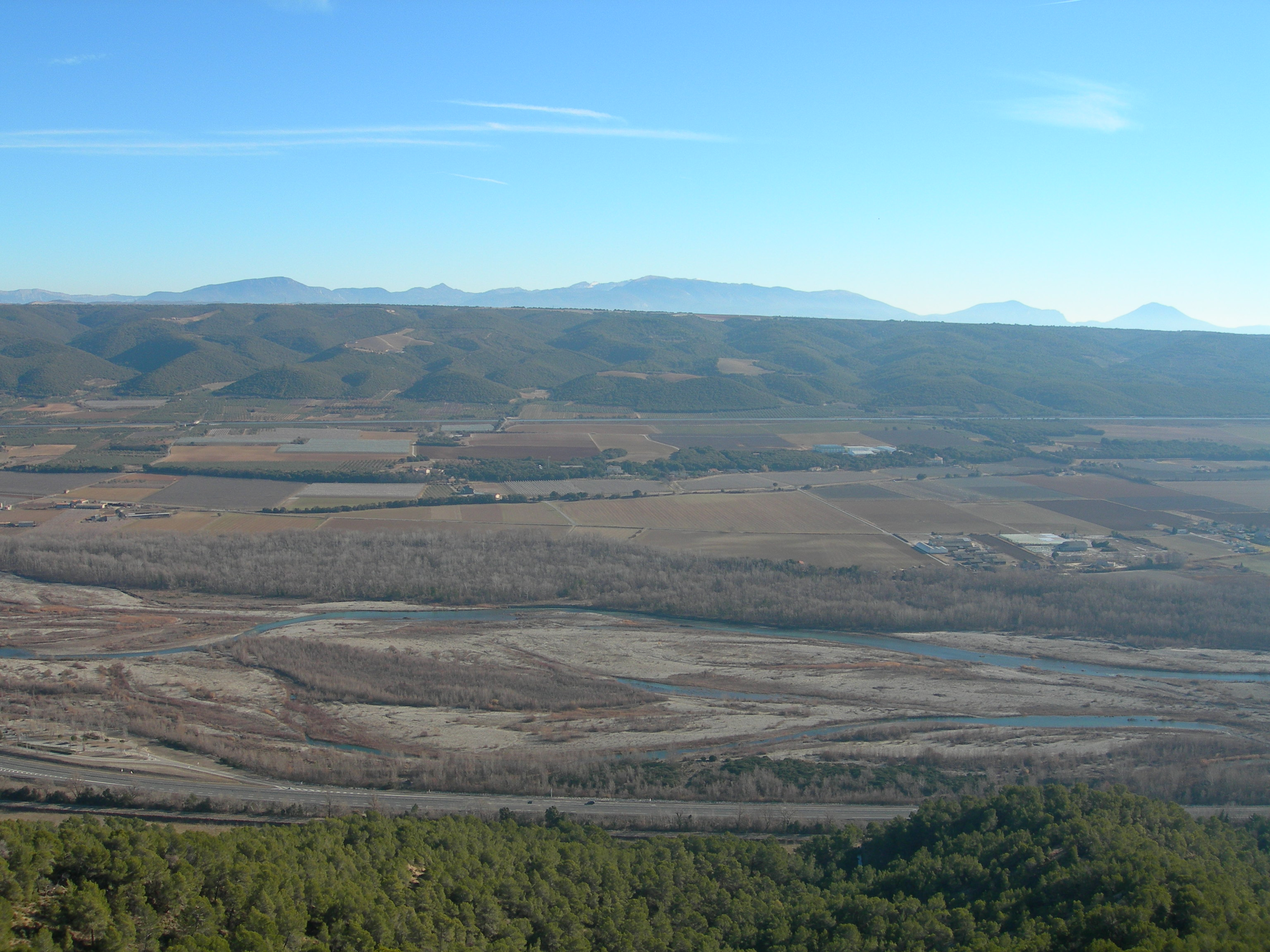 Valley of Durance river near village of Les Meés, view from the Ganagobie plateau towards the east across the Valensole plateau. In the backgound of the image the mountains of the Western Alps are visble.